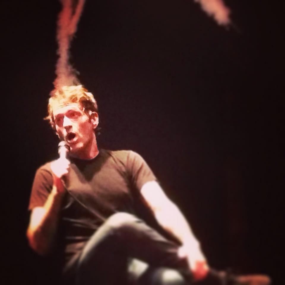 Comedian Ben Roy performs at the monthly Grawlix show at the Bug Theater in Denver, Colorado.